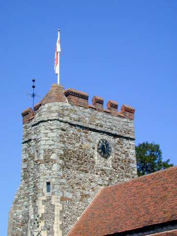 The top of the tower of St Lawrence' parish church, Waltham St Lawrence, Berkshire, seen from the southeast from Halls Lane